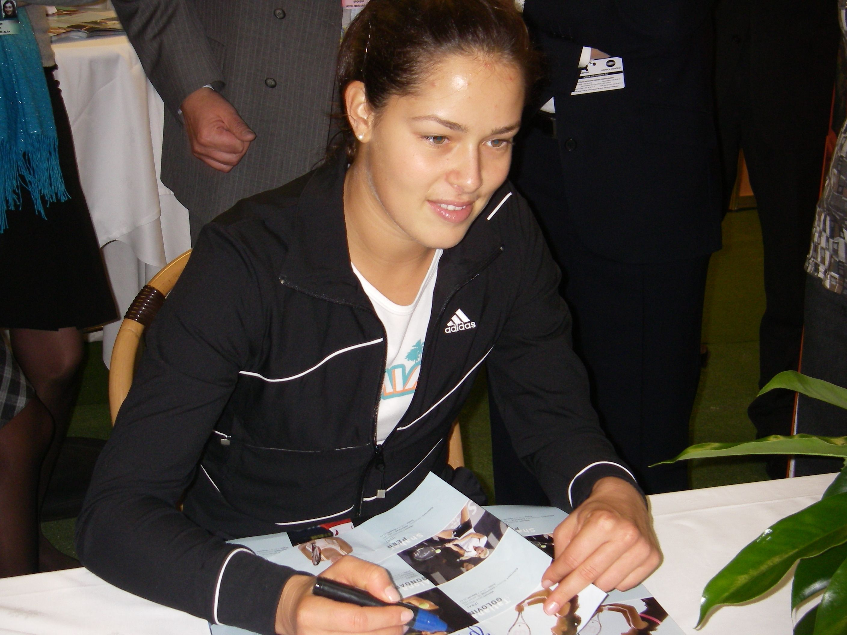 Ana Ivanovic signing autographs at the 2007 Fortis Championships in Luxembourg